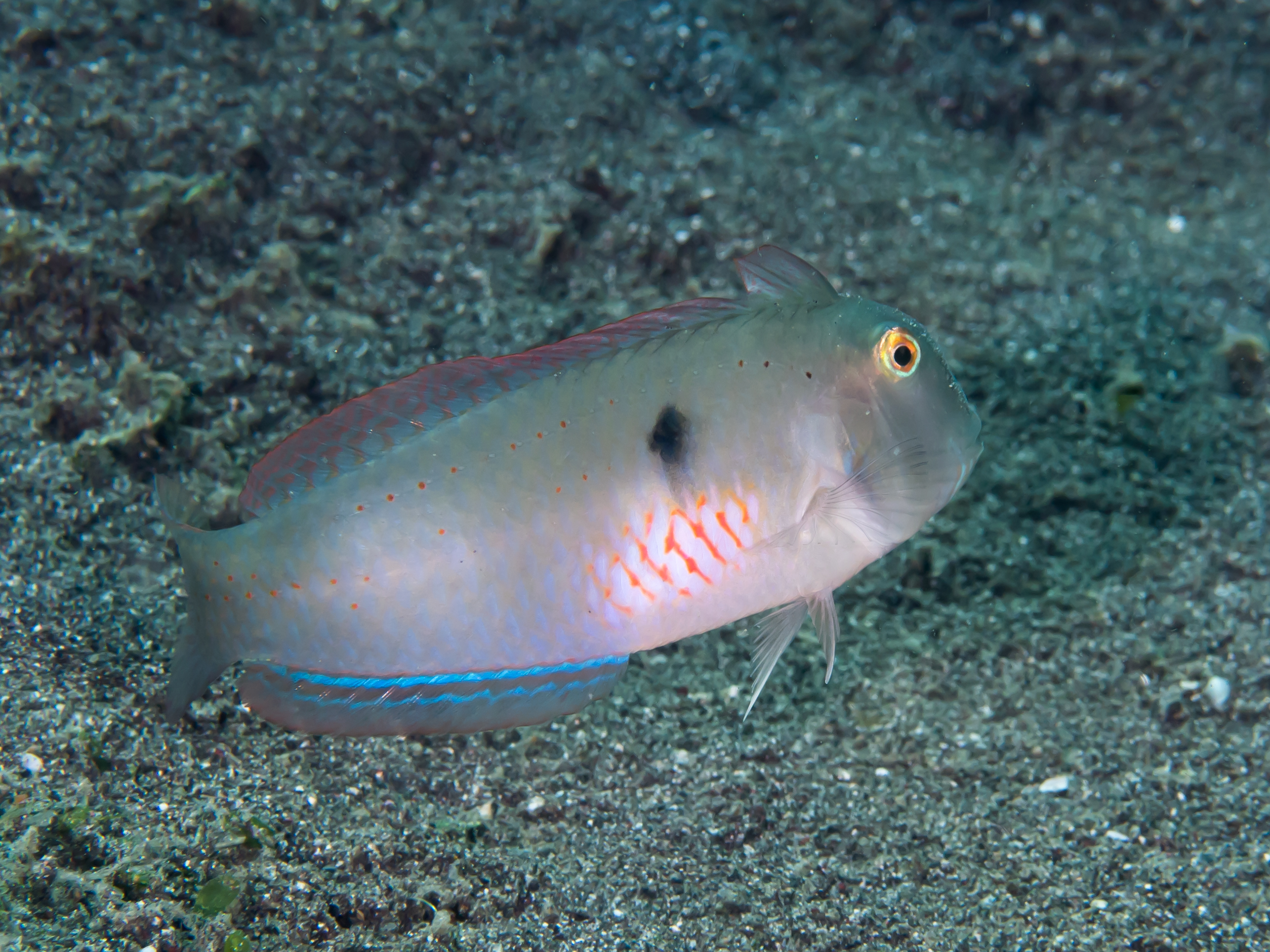 Lembeh, Indonesia - Fivefinger wrasse (Iniistius pentadactylus)